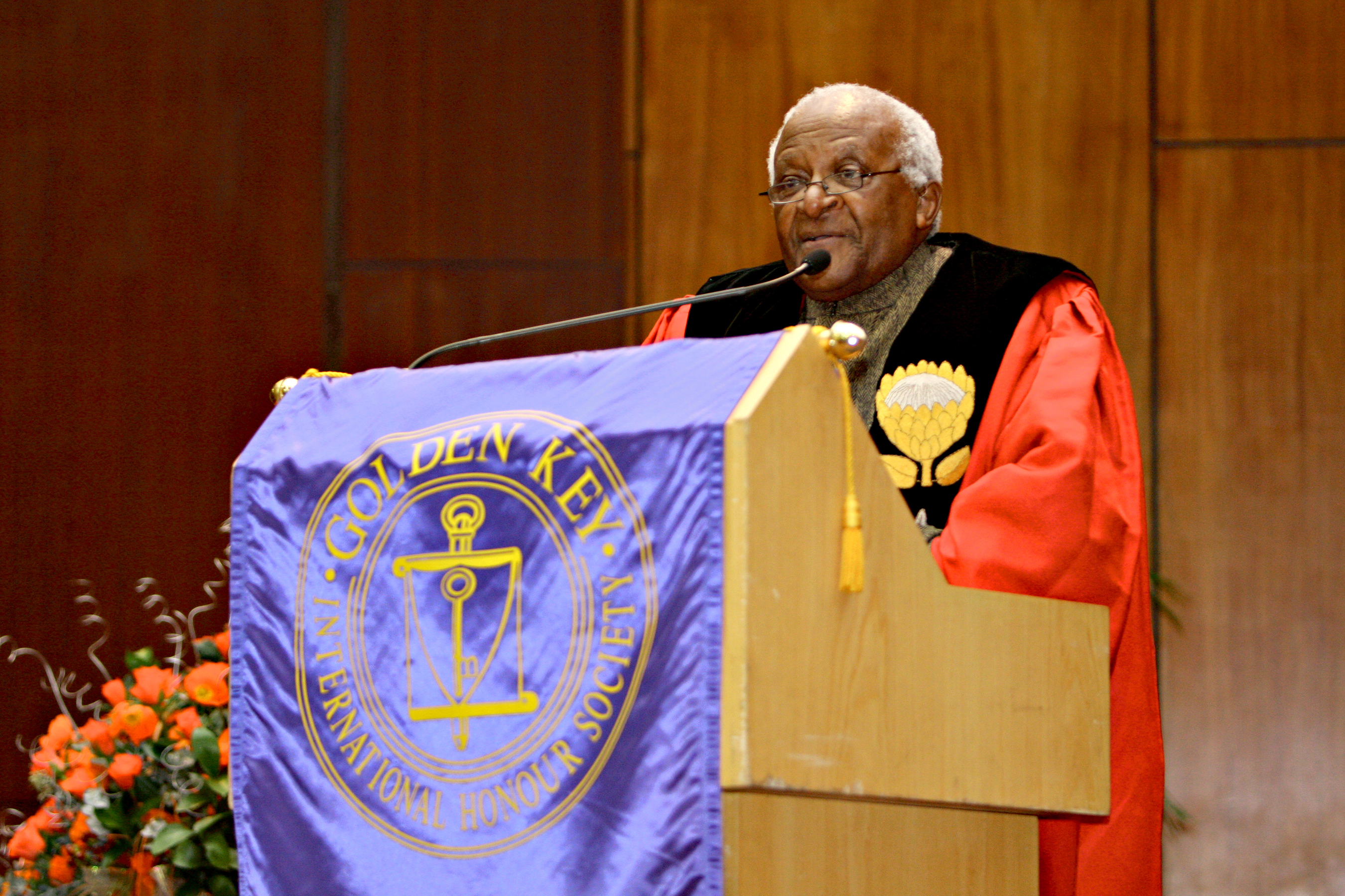 Golden Key Honorary Member, Desmond Tutu, providing the keynote address at the University of the Western Cape's New Member Recognition Event.